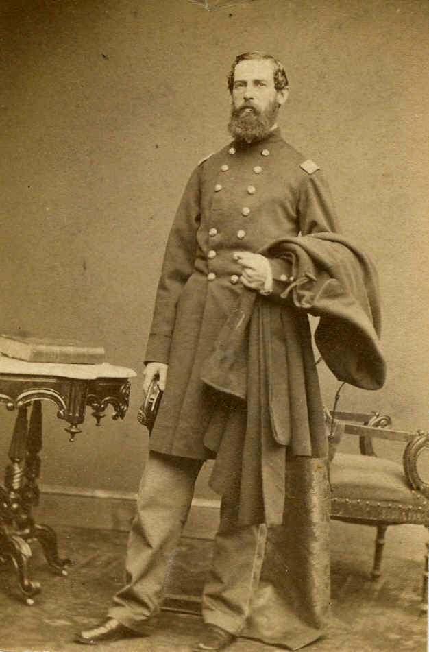 Colonel George Watson Pratt, 20th New York State Militia. He was the son of Zadock Pratt, was mortally wounded August 30, 1862 at the Second Battle of Bull Run, and died September 11, 1862.